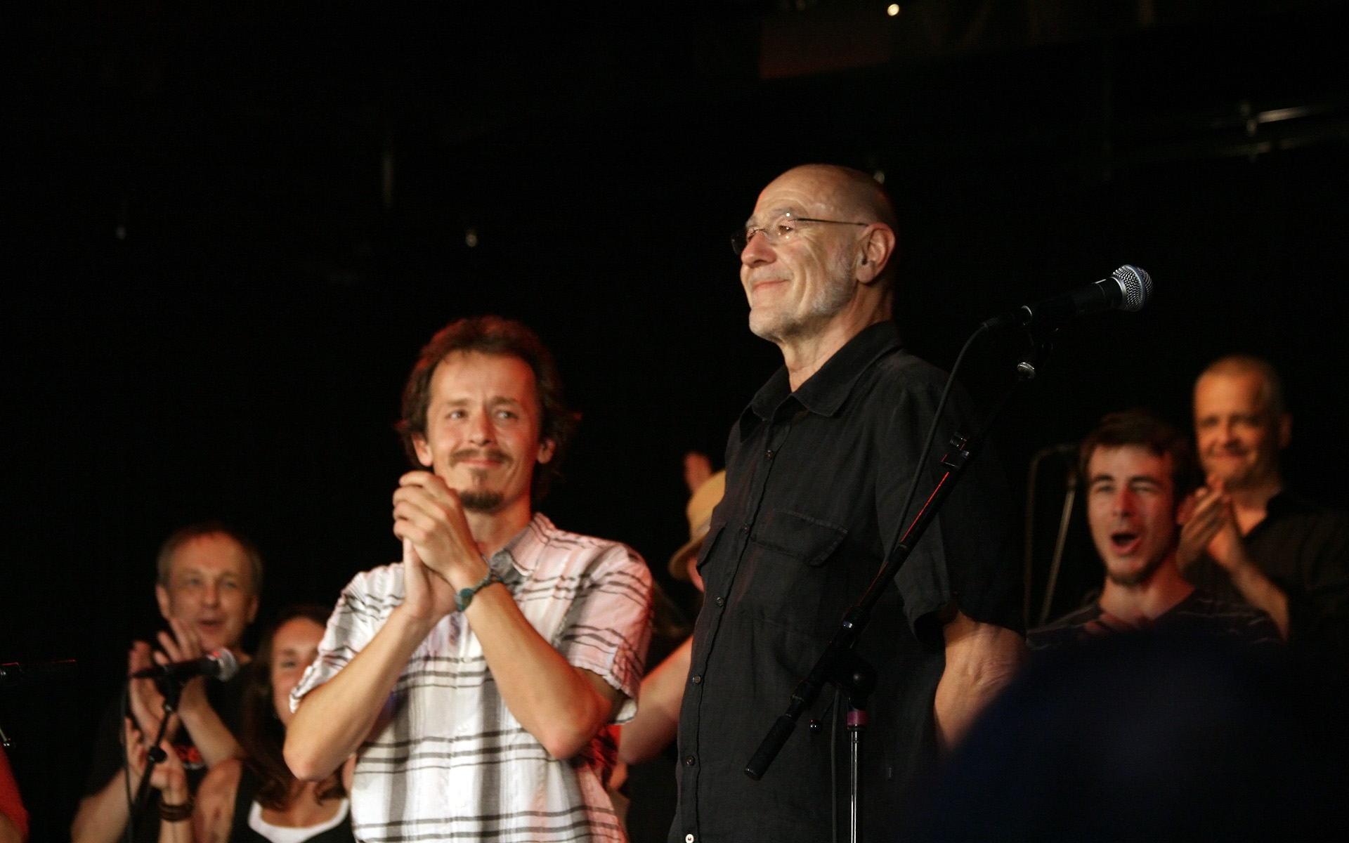 200th and last broadcast of Willi Resetarits' radio show Trost und Rat. Tschauner-Bühne in Vienna.